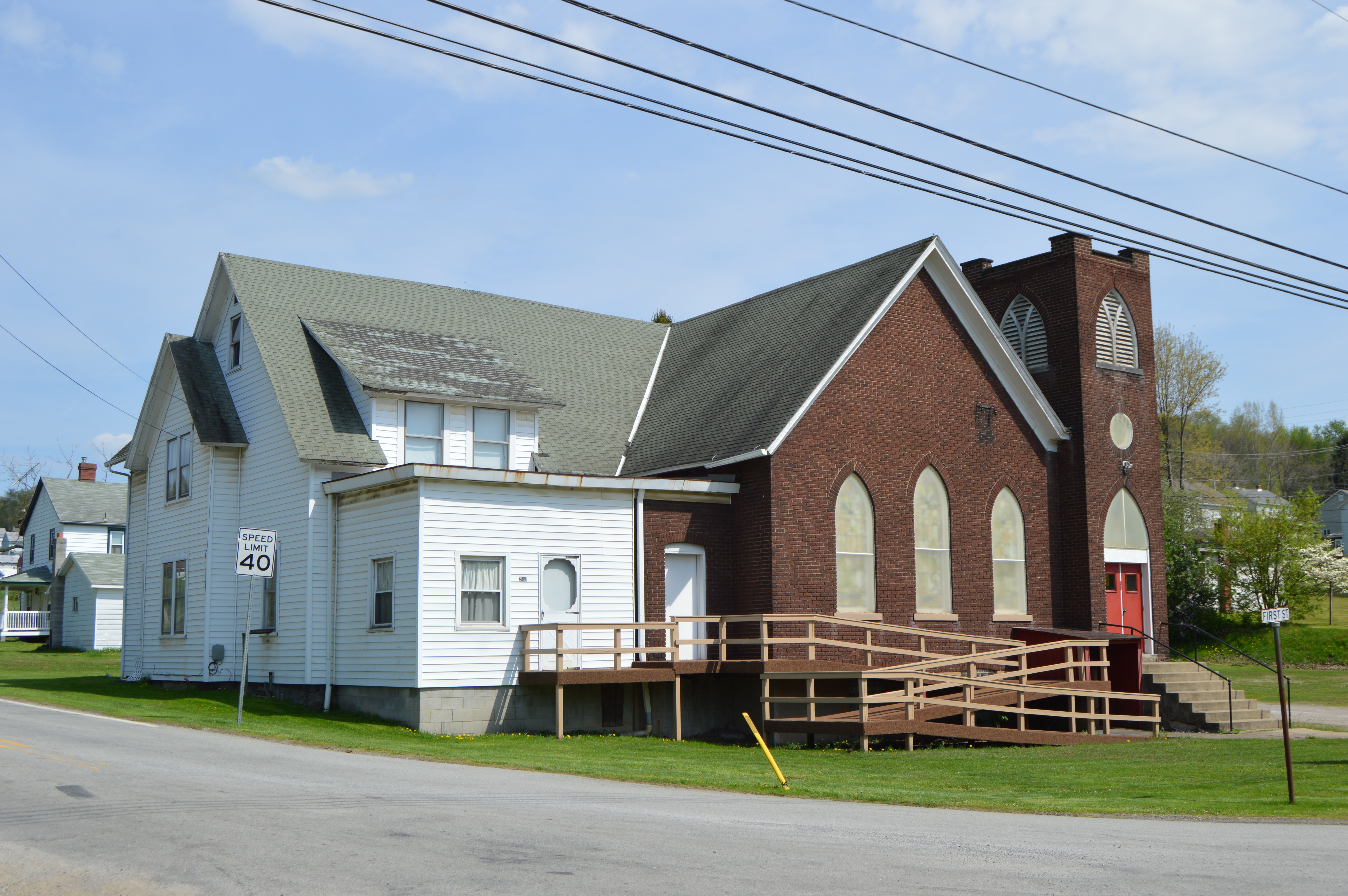 Front and northern side of the Wyano United Methodist Church, located at the junction of First Street and Huntingdon Road in Wyano, Pennsylvania, United States.